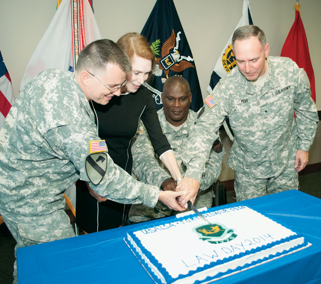 During the U.S. Army Legal Services Agency's annual Law Day observation May 1, Col. Joseph Keeler, Fort Belvoir staff judge advocate, Professor Joyce Malcolm, George Mason University School of Law, Col. Gregory Gadson, garrison commander and Brig. Gen. Charles Pede, USALSA commander, cut the cake to celebrate our nation's democracy. (Photo Credit: T. D. Jackson)